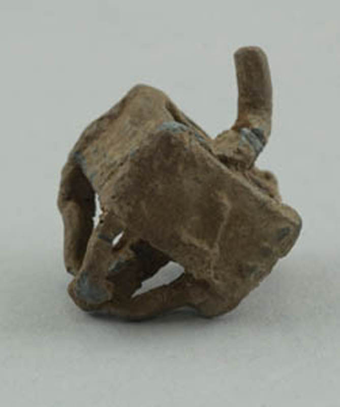 Description: Hanukkah top Artist: unknown Date: late 19th or early 20th century Medium: lead Persistent URL: Repository: Yeshiva University Museum Accession number: 2008.024 Rights Information: No known copyright restrictions; may be subject to third party rights. For more copyright information, click here. See more information about this image and others at CJH Museum Collections.